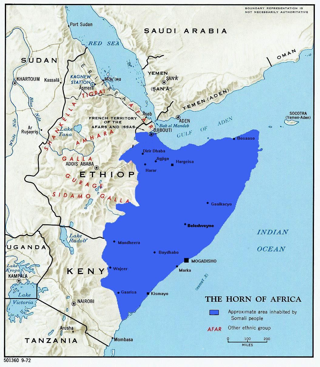 Greater Somalia map edit with Djibouti included